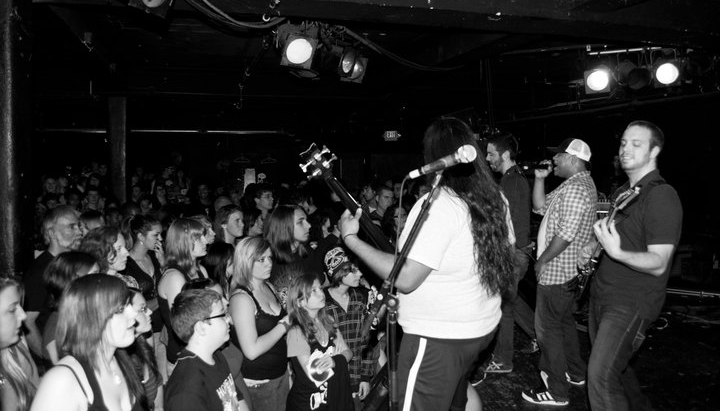 This is the band Hope Lies Within performing live at the Pearl Street Night Club in Northampton Massachusetts